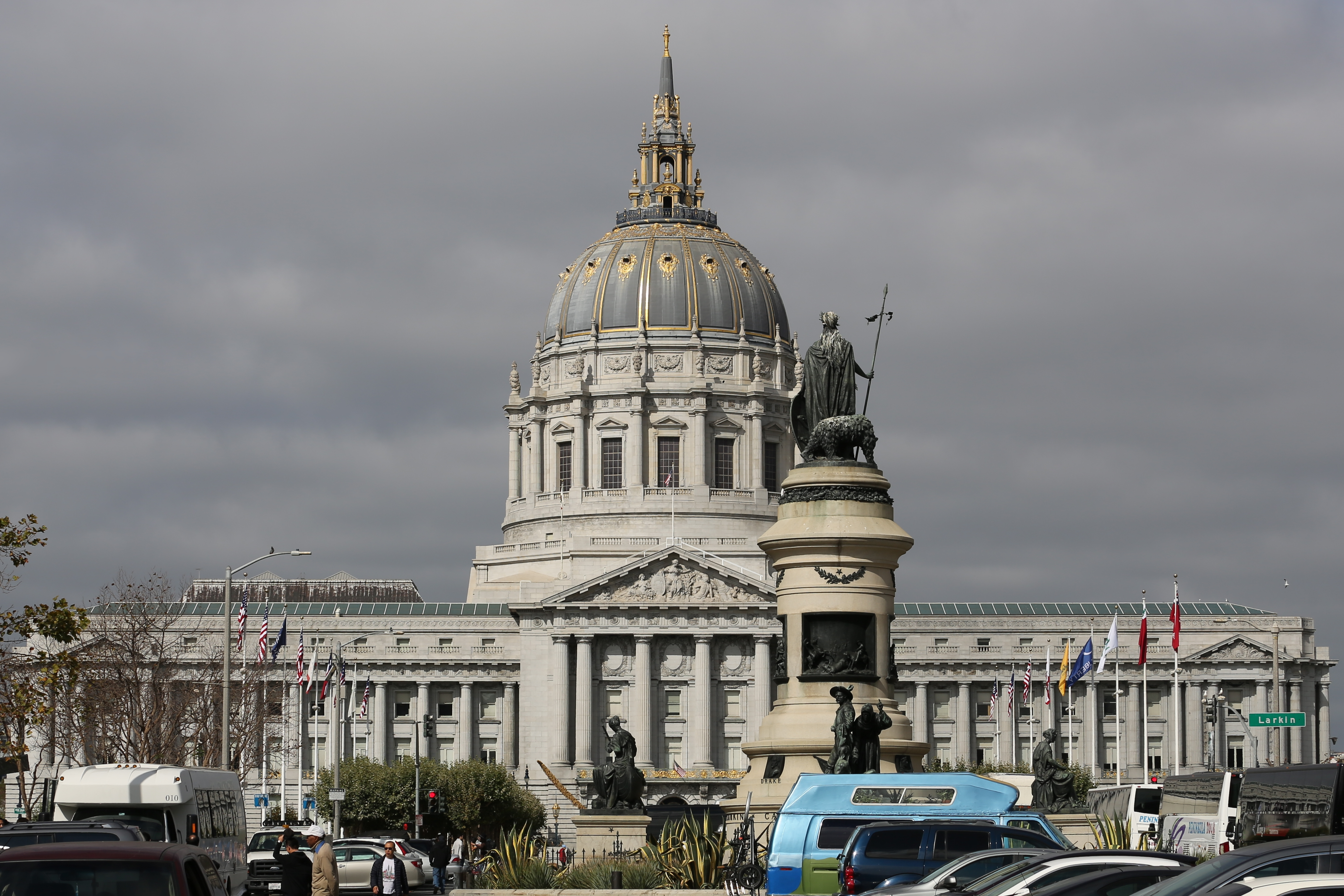 San Francisco City Hall (TK2)